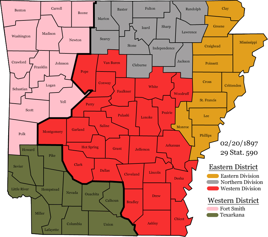 Arkansas districts - 1897